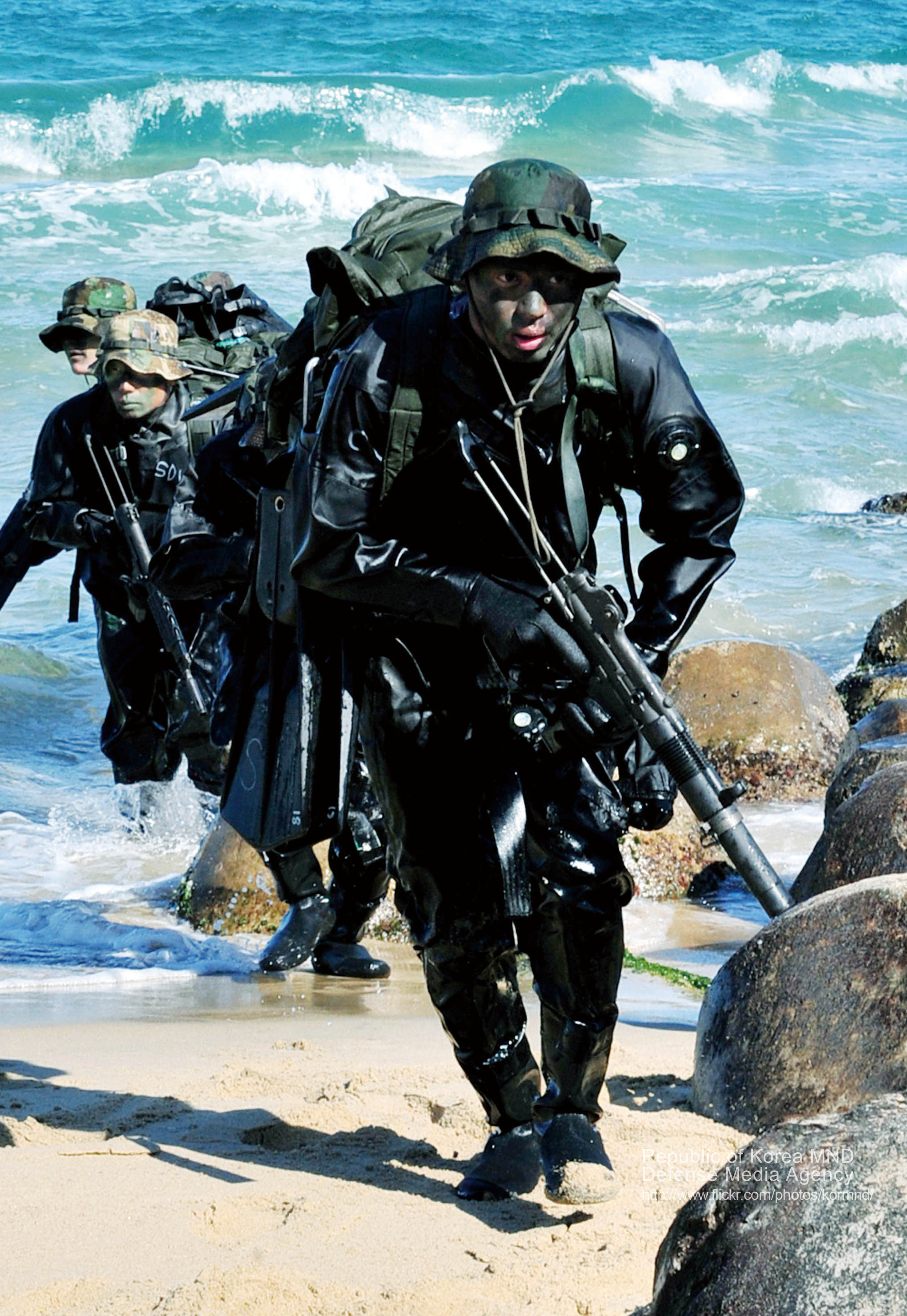 2010 국방화보 Rep. of Korea, Defense Photo Magazine 해군특수전여단의 혹한기 해상침투훈련 모습. ROK Navy UDT and Seal on an coast infiltrating training during cold weather operation.